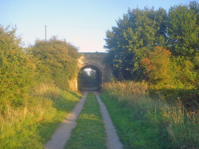 Bridge near Pound Farm Carrying Stanley Lane over the cycleway, which follows the disused Chippenham-to-Calne branch line. Just beyond the bridge was once Stanley Bridge Halt, and here the cycleway follows the lane for a short distance before rejoining the track bed most of the way to Calne. The Calne branch line was opened in October 1863 and had always been busy despite its short length. Large numbers of passengers plus freight services for Calne businesses (including Harris pork pies), local farms, and the military establishments at Yatesbury and Compton Basset, did not save it from the Beeching axe. Freight working ended in November 1964 and passenger trains ended in September 1965.